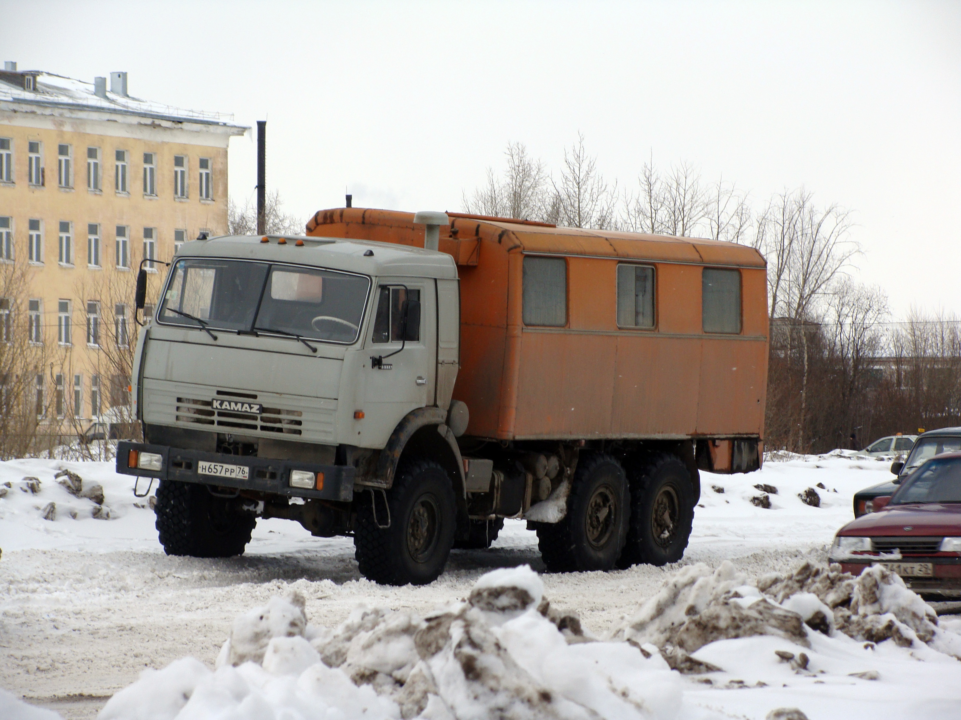 Kamaz-based off-road bus, Kotlas